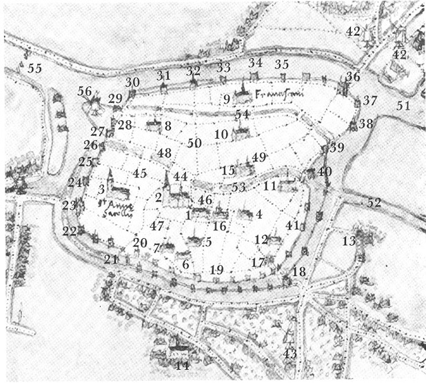 Map of Zwolle from 1560, Netherlands, made by Jacobus van Deventer-Middelburg